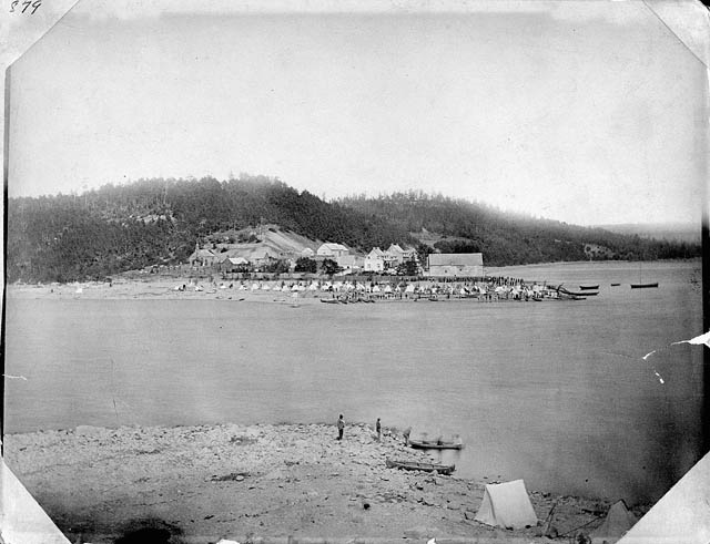 Fort Temiscamingue as seen from across Lake Timiskaming